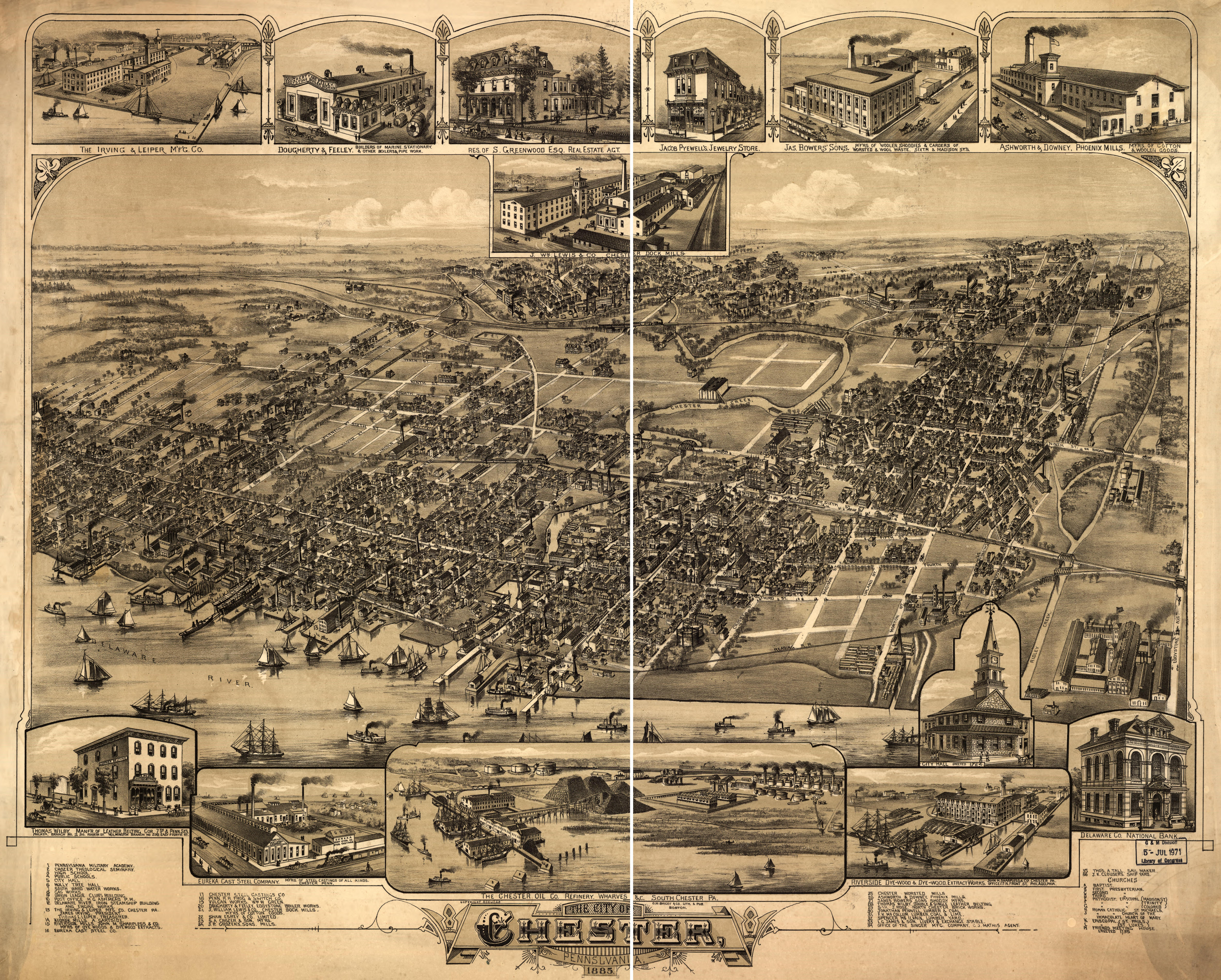 The City of Chester, Pennsylvania in a bird's-eye view published in 1885. At the Library of Congress. Their metadatafollows: The city of Chester, Pennsylvania 1885. O.H. Bailey & Co. CREATED/PUBLISHED Boston [1885] NOTES Perspective map not drawn to scale. Bird's-eye-view. Reference: LC Panoramic maps (2nd ed.), 751 Includes illus. and index to points of interest. SUBJECTS Chester (Pa.)--Aerial views. United States--Pennsylvania--Chester. RELATED NAMES Library of Congress. Thaddeus M. Fowler map collection ; no. 30. MEDIUM col. map on sheet 66 x 86 cm. CALL NUMBER G3824.C5A3 1885 .B3 Fow 30 REPOSITORY Library of Congress Geography and Map Division Washington, D.C. 20540-4650 USA DIGITAL ID g3824c pm007510